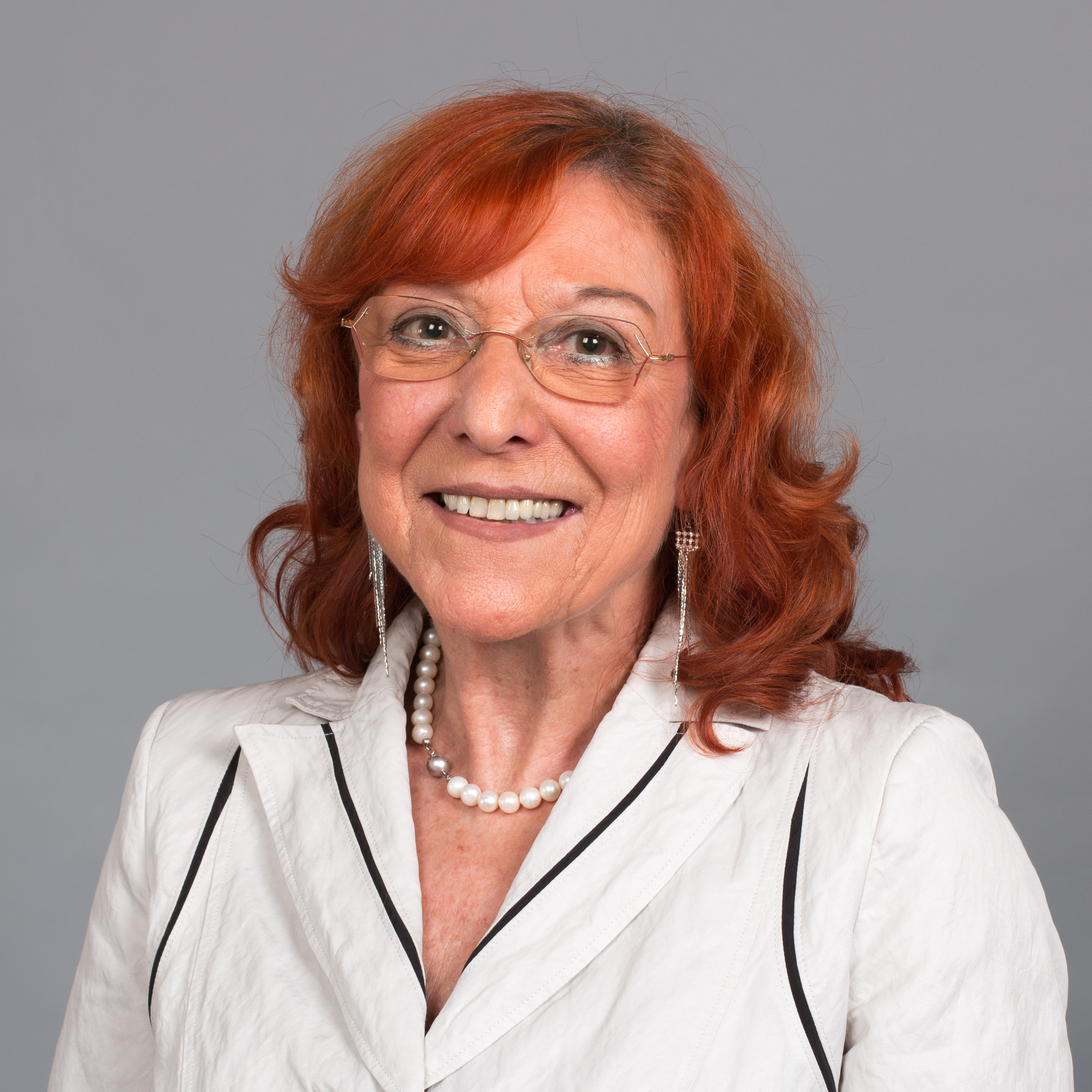 Petra Elsner, SPD, member of the Landtag of Rhineland-Palatinate